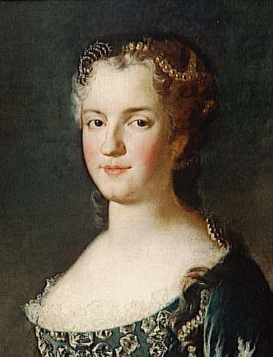 Portrait of Maria Leszczynska, oil on canvas, châteaux de Versailles et de Trianon